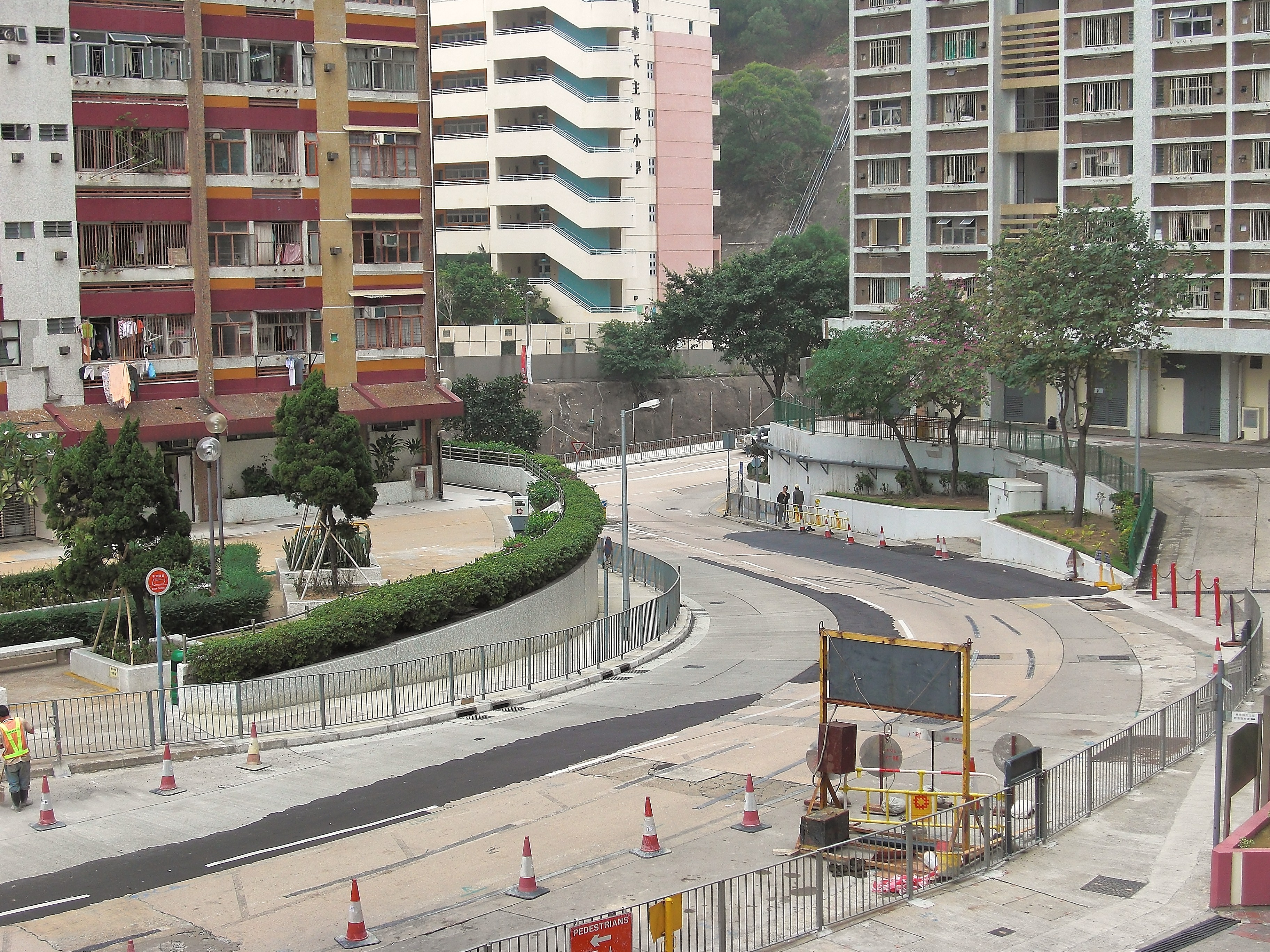 A view of Lok Wah Estate Access Road from the footbridge near Lok Wah Estate is seen.